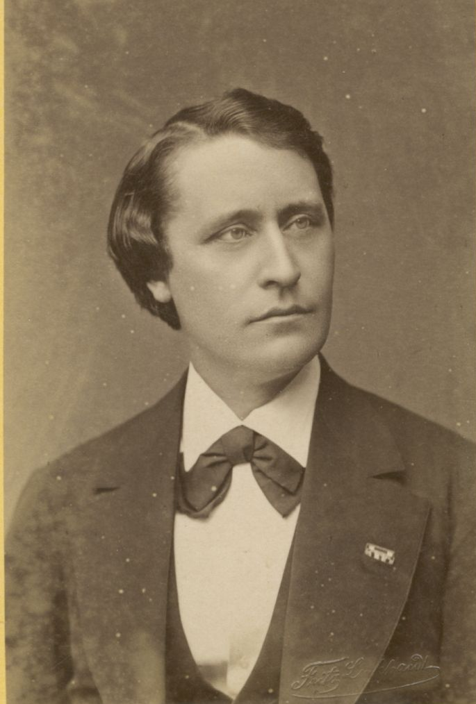 Artist: Fritz Luckhardt Date/place: Unknown date/Vienna Subject: Johann Christoph Lauterbach Medium: Photographic posetiv Notes: German violinist. Born in Kulmbach 24.07 1832 - dead in Dresden 28.03. 1918 Original belongs to the Archives at [#//bergenbibliotek.no/digitale-samlinger” Bergen Public Library]